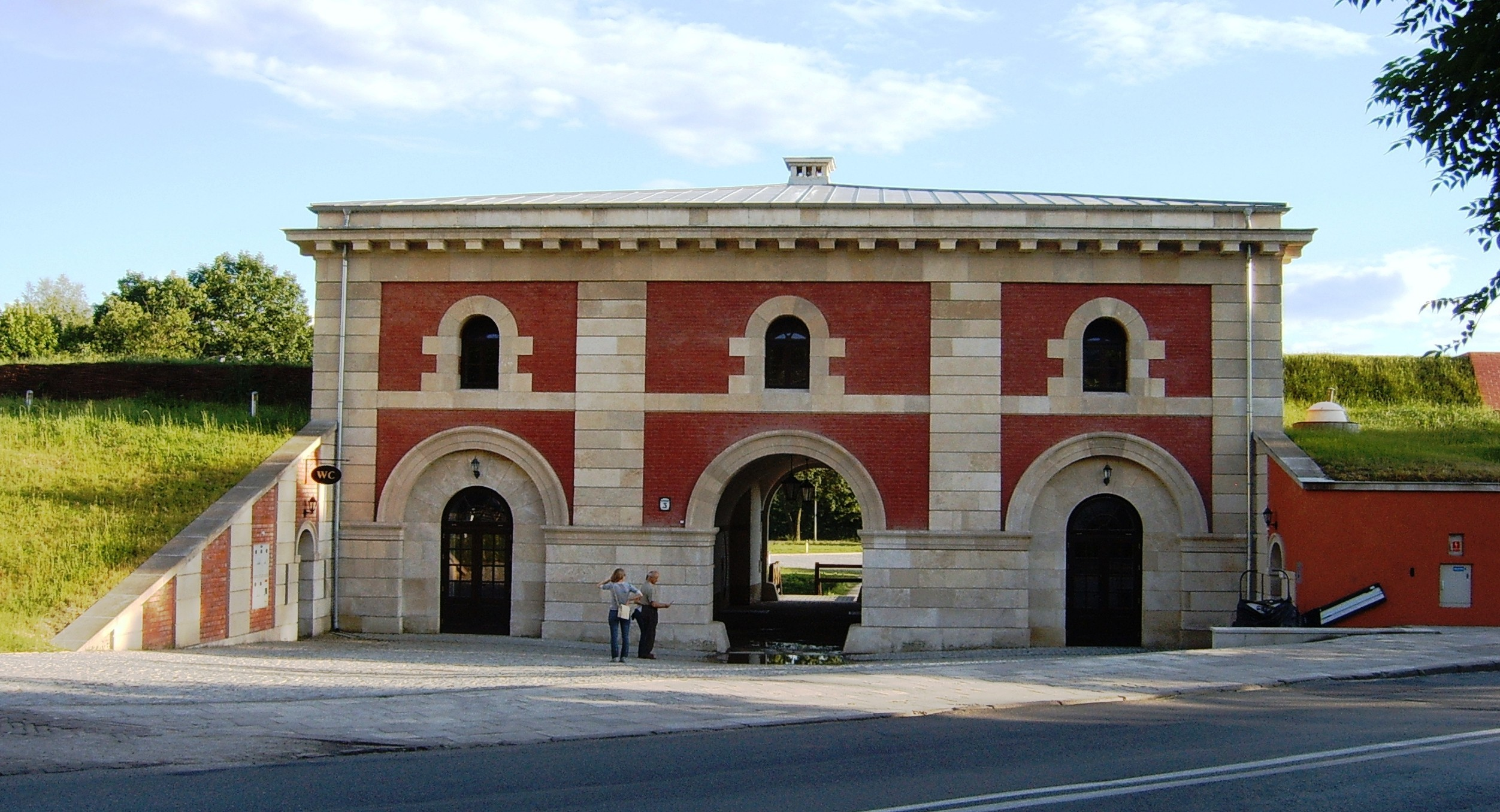 Renovated former Szczebrzeszyn Gate, in Old City of Zamość (view from north side)